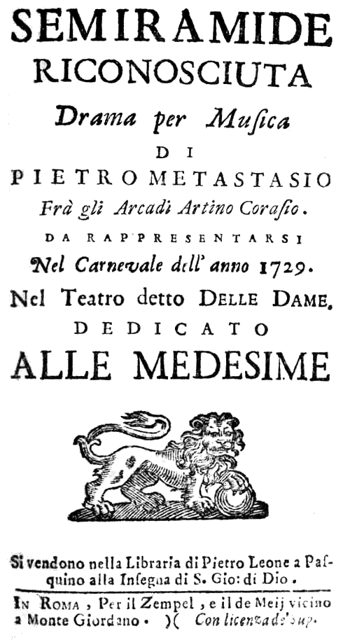 Leonardo Vinci - Semiramide reconosciuta - titlepage of the libretto - Rome 1729